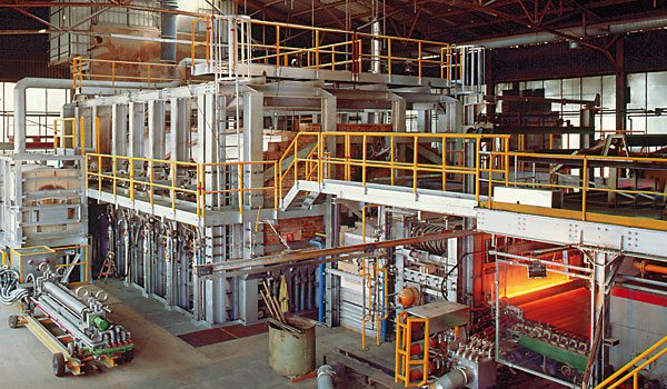 View into the manufacturing hall of the Glasfabrik LAMBERTS in Wunsiedel, Germany.